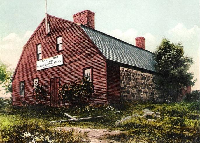 The Old Gaol (Jail), York Village, ME; from a 1901 postcard published by the Detroit Photographic Company. It was built in 1719.